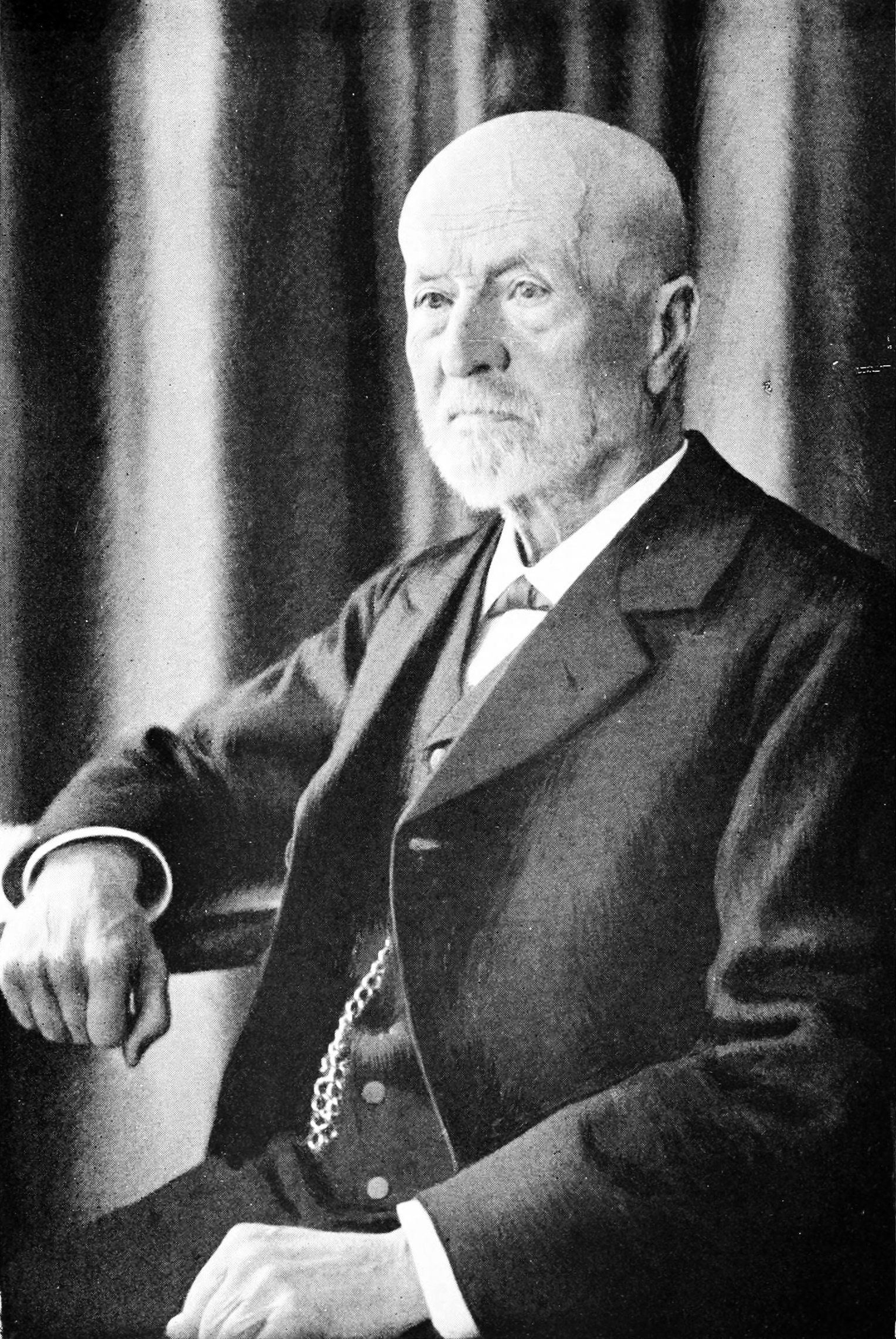 EmileMacker